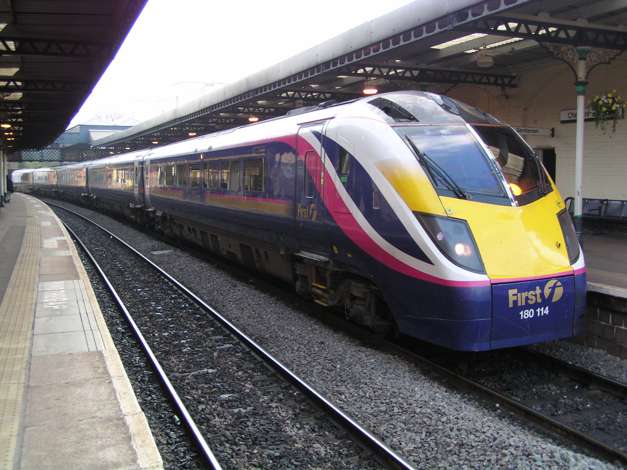 BR Class 180, no. 180114 at Cheltenham Spa on 31st March 2004. These units currently form the majority of First Great Western's Cheltenham to London Paddington services.